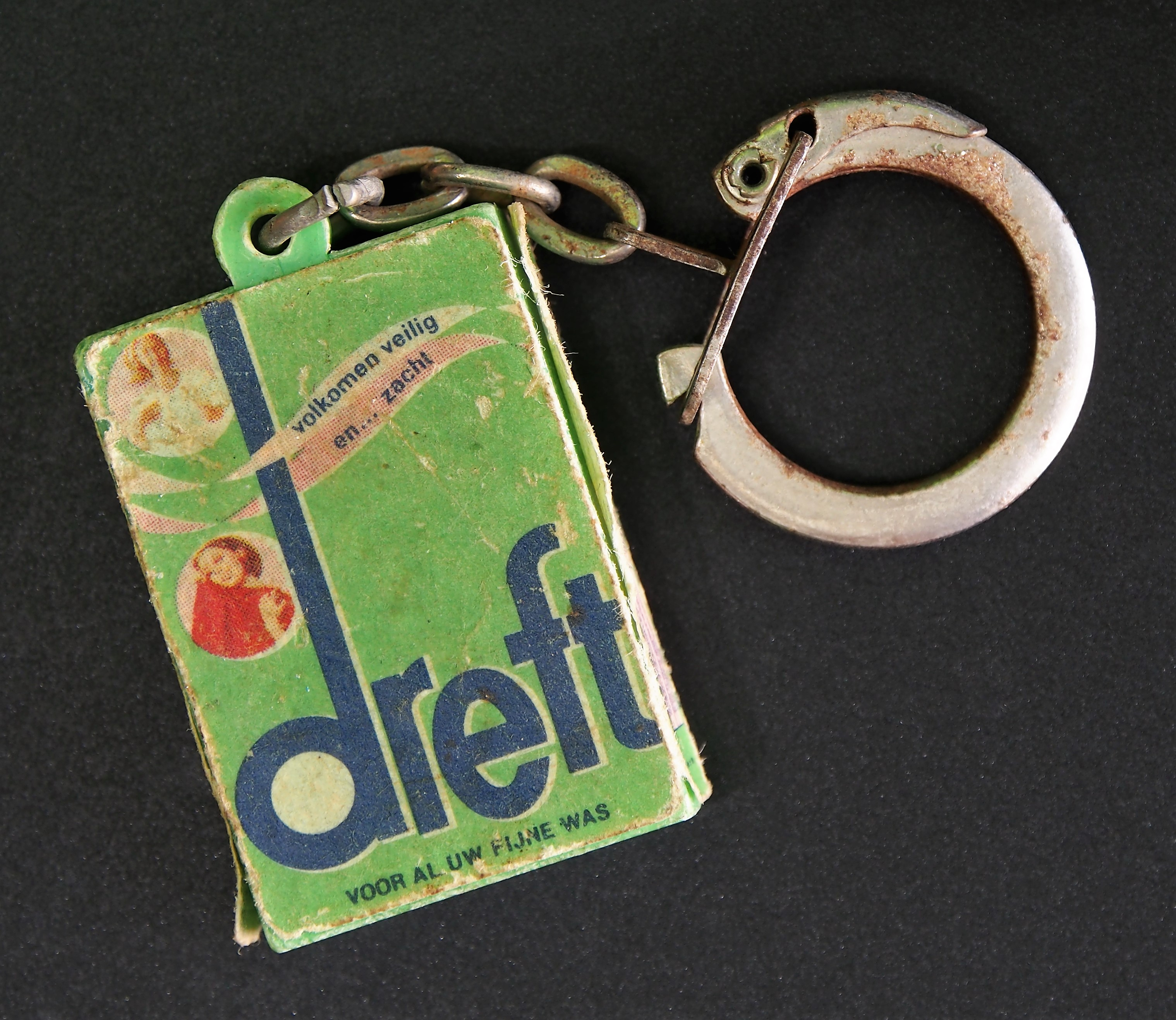 Advertising key fob of an old (Dutch) product or brand.